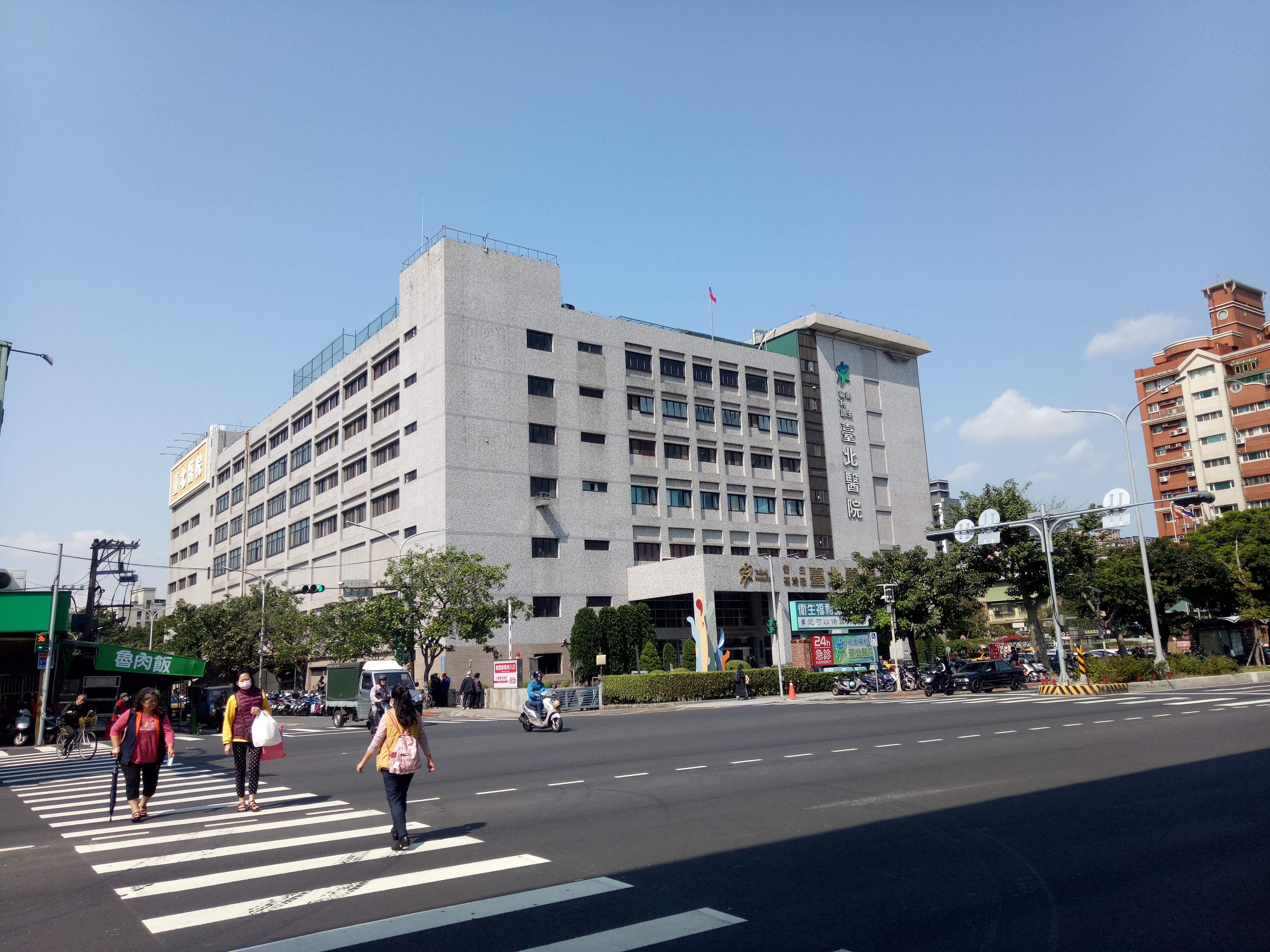 Taipei Hospital, MOHW.